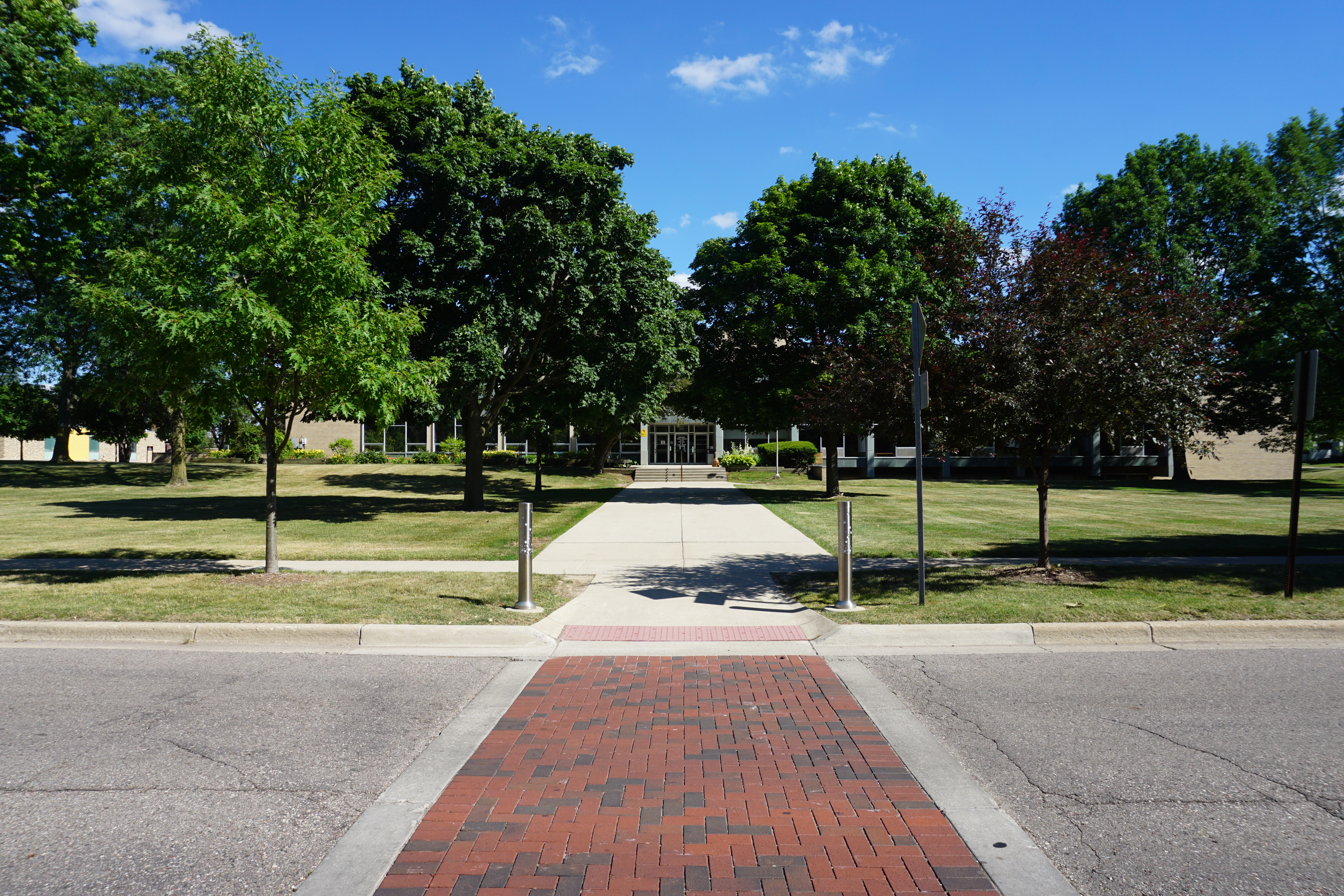 The Flint Public Library in Flint, Michigan (United States).